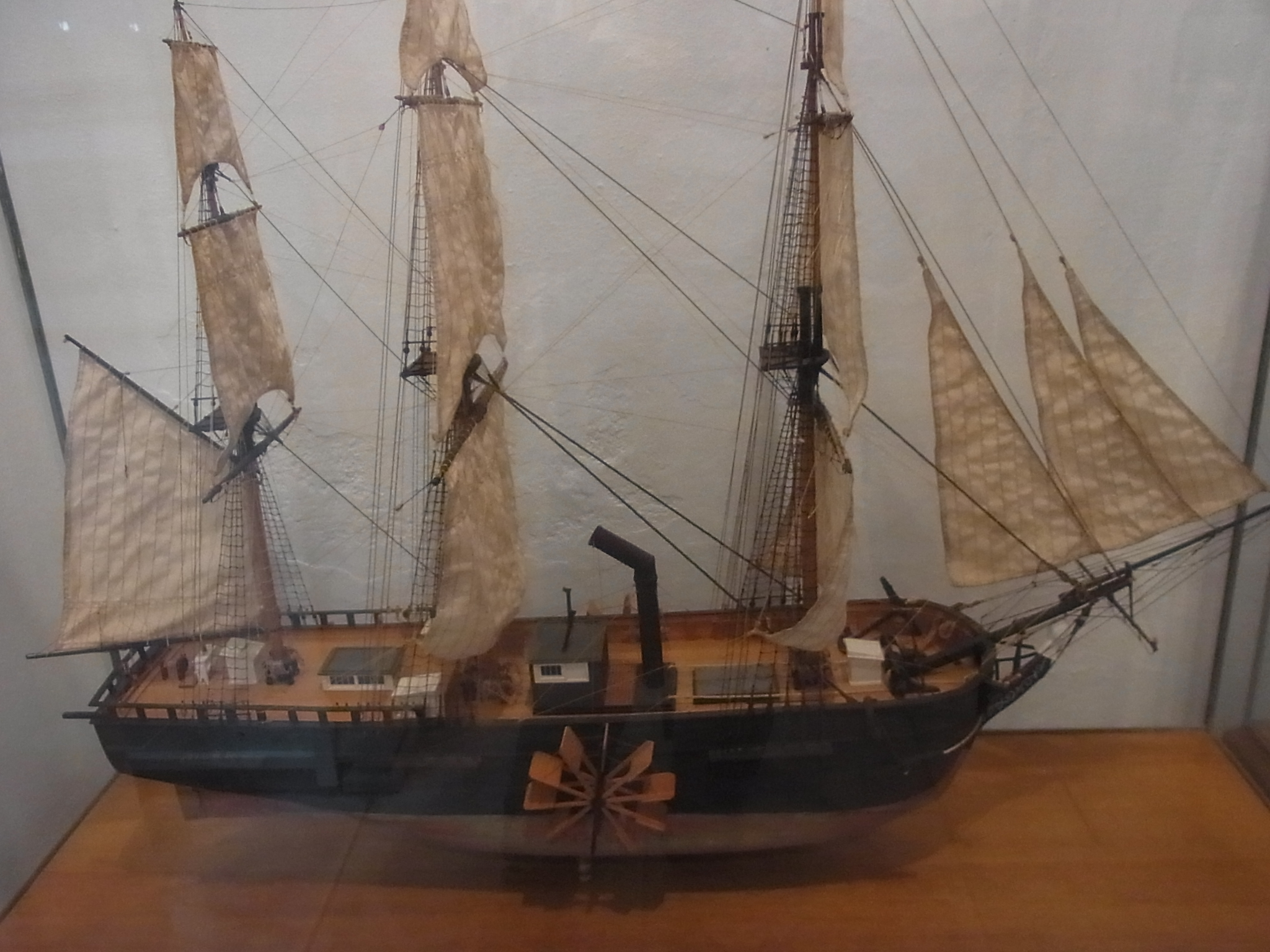 Paddlewheel steamship with sails